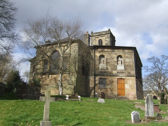 St Michael's parish church, Madeley, Shropshire, seen from the southeast. Centre left behind the birch tree is the chancel added in 1910.